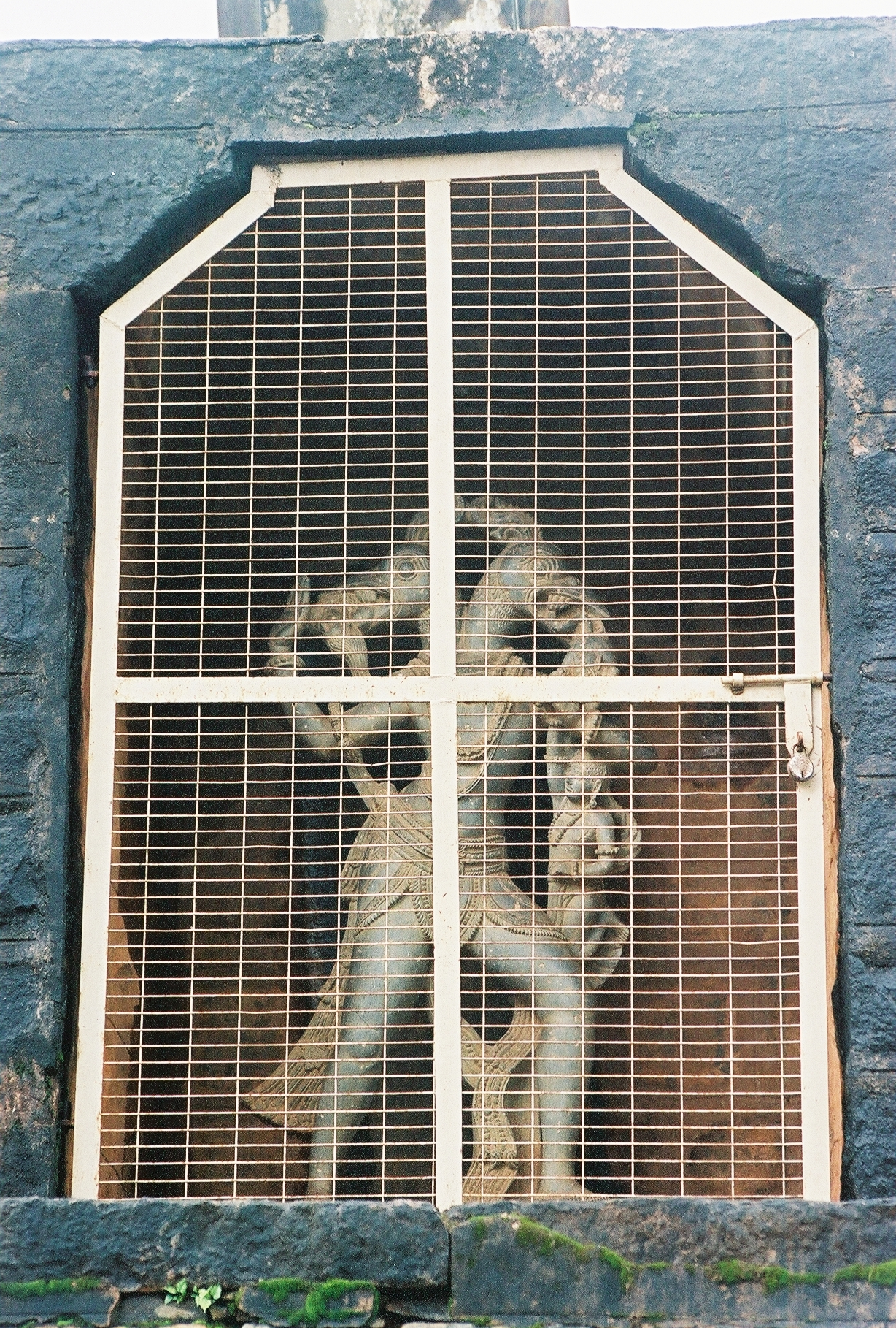 Photograph of two headed mythical bird (Ganda-Bherunda) taken by self (Dinesh Kannambadi) at Tripurantakesvara temple (or Tripurantaka) in Balligavi, Shivamogga district, Karnataka state, India